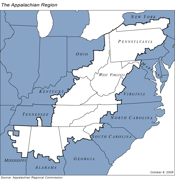 Map of the Appalachian region of the United States, from the Web site of the Appalachian Regional Commission, at PD-USGov